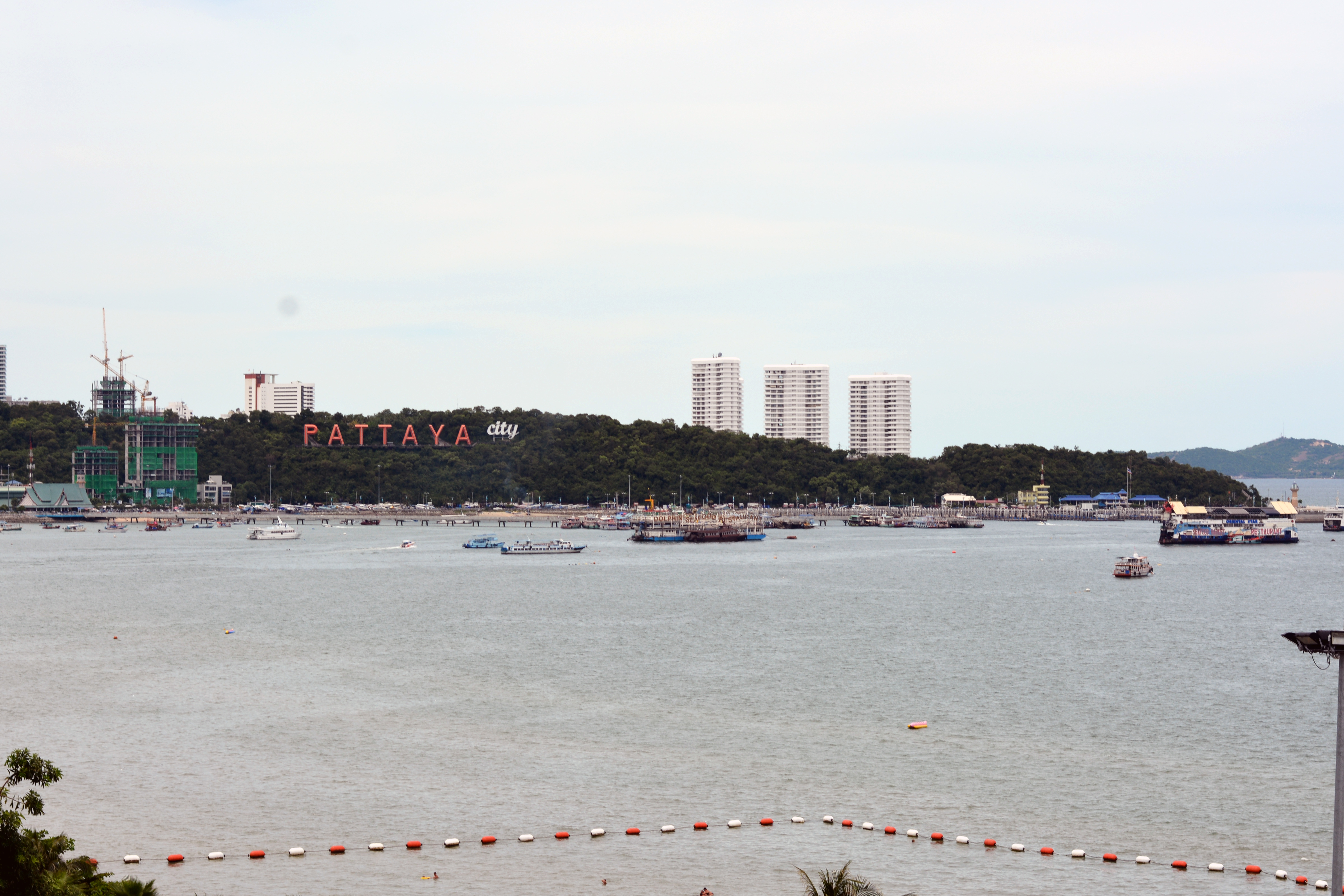 Pattaya Thailand photo D Ramey Logan